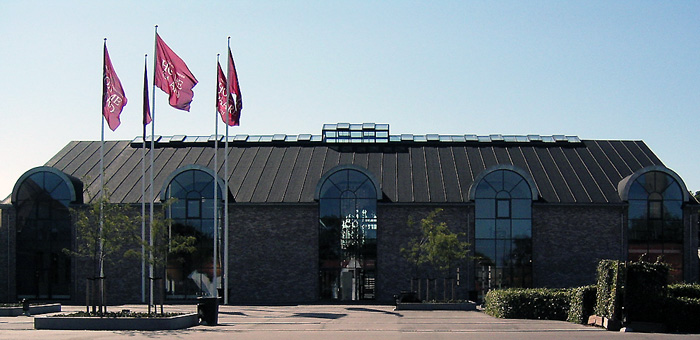 Holmegaard Glasswork, Denmark. The factory building from 1972, drawn by Svenn Eske Kristensen, is with its sculptural modernism a familiar icon at Fensmark, Naestved.